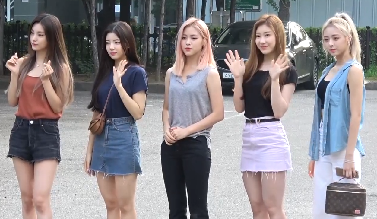 Itzy going to a Music Bank recording on August 8, 2019.